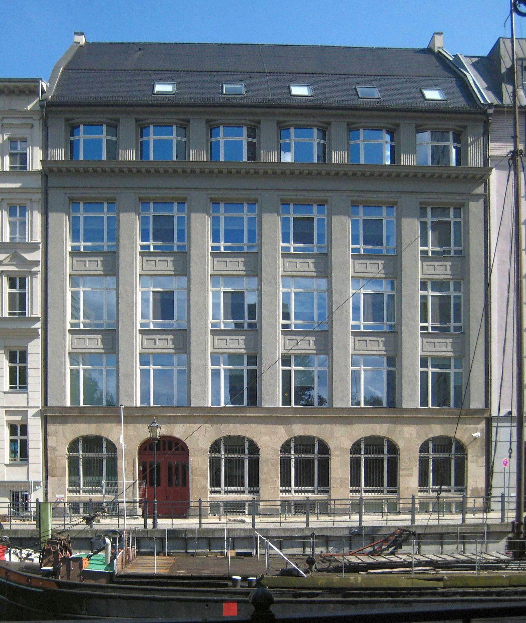 The Australian Embassy in Berlin, hier the wing on Märkisches Ufer, where apartments are located. It was built in 1912 to a design by the architect Fritz Crzellitzer as rear part of a commercial building at Wallstraße No. 76-79. Compared to the lavish majolica facade of the front building, the wing on Märkisches Ufer has a simple design with a plastered facade above a dressed stone base. The building complex has been designated as a historic landmark.